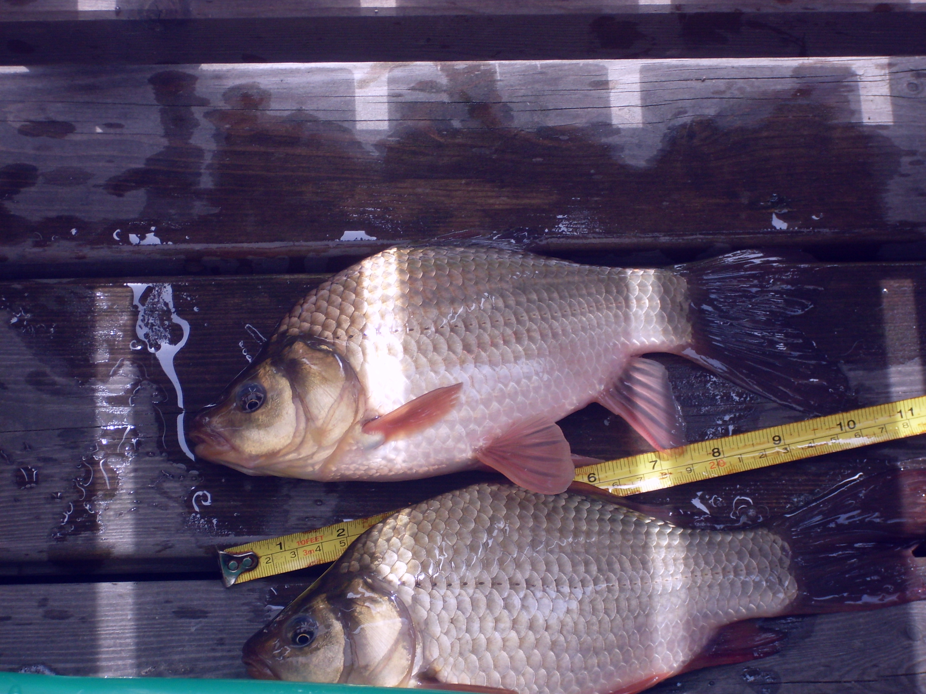 Crucian carp (Carassius carassius)